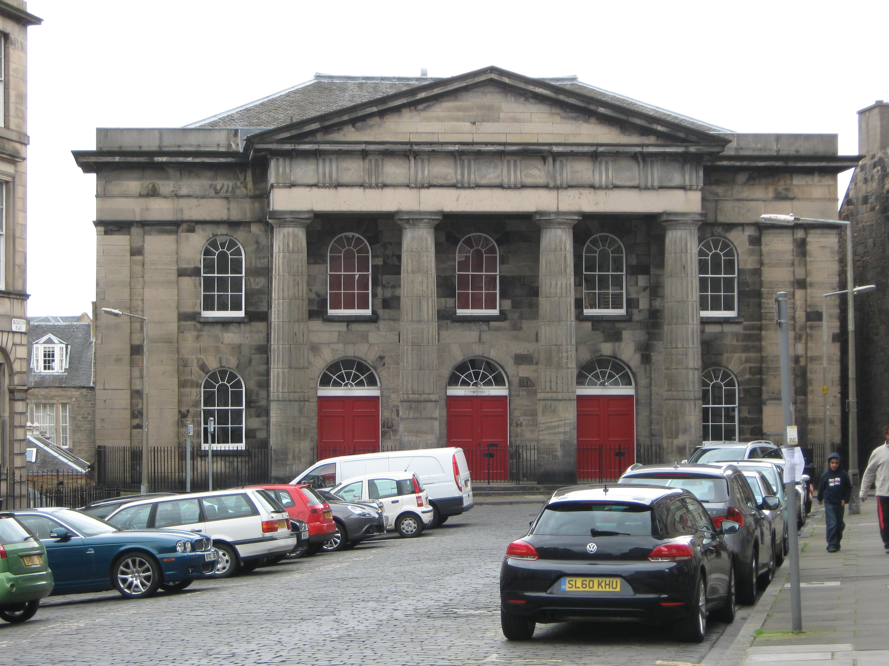 33 and 35 Broughton Place, Edinburgh. Formerly Broughton Place Church and Offices. In 2015 number 33 was occupied by Auctioneers Lyon and Turnbull. Location (OSM permalink)